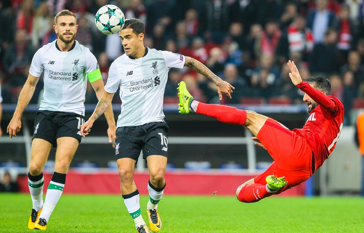 Philippe Coutinho